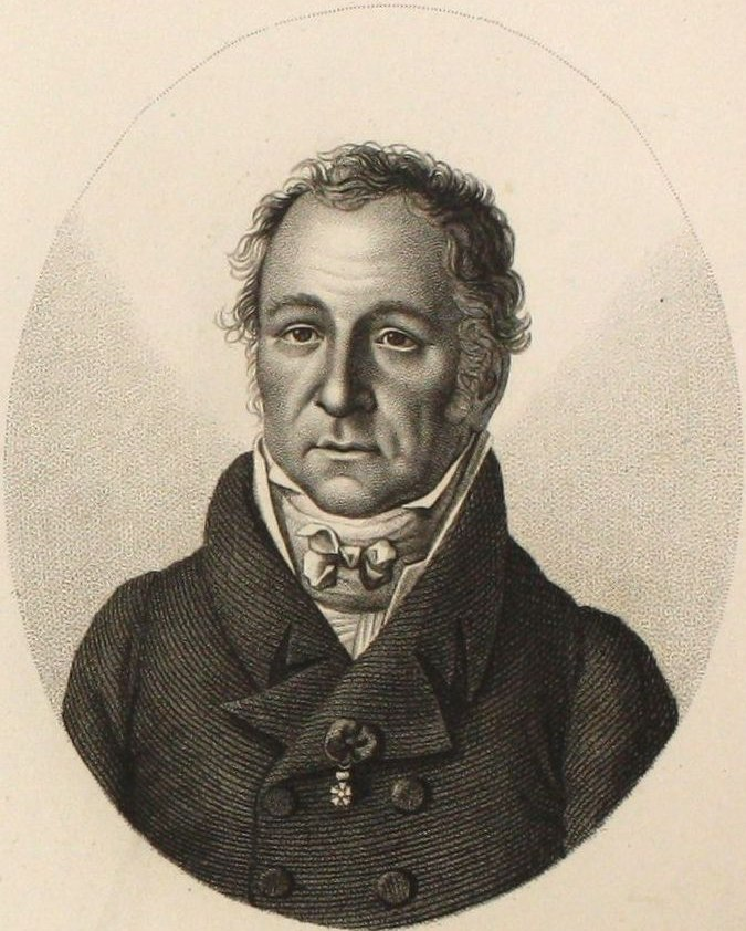 Charles Joseph Mathieu Lambrechts (20 November 1753 - 4 August 1825) was a Belgian-born lawyer who became Minister of Justice in France.